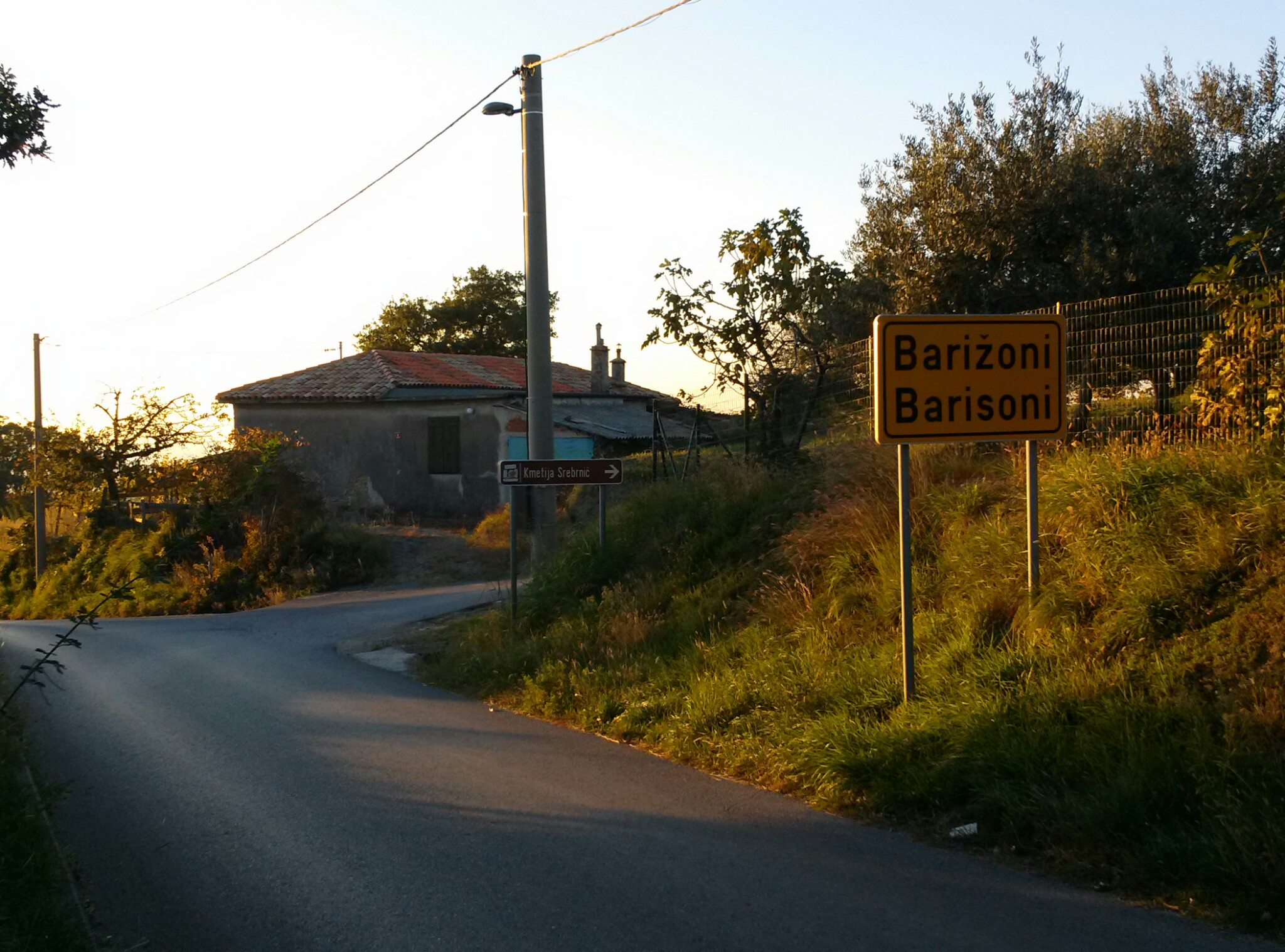 Road sign Barizoni, Slovenia